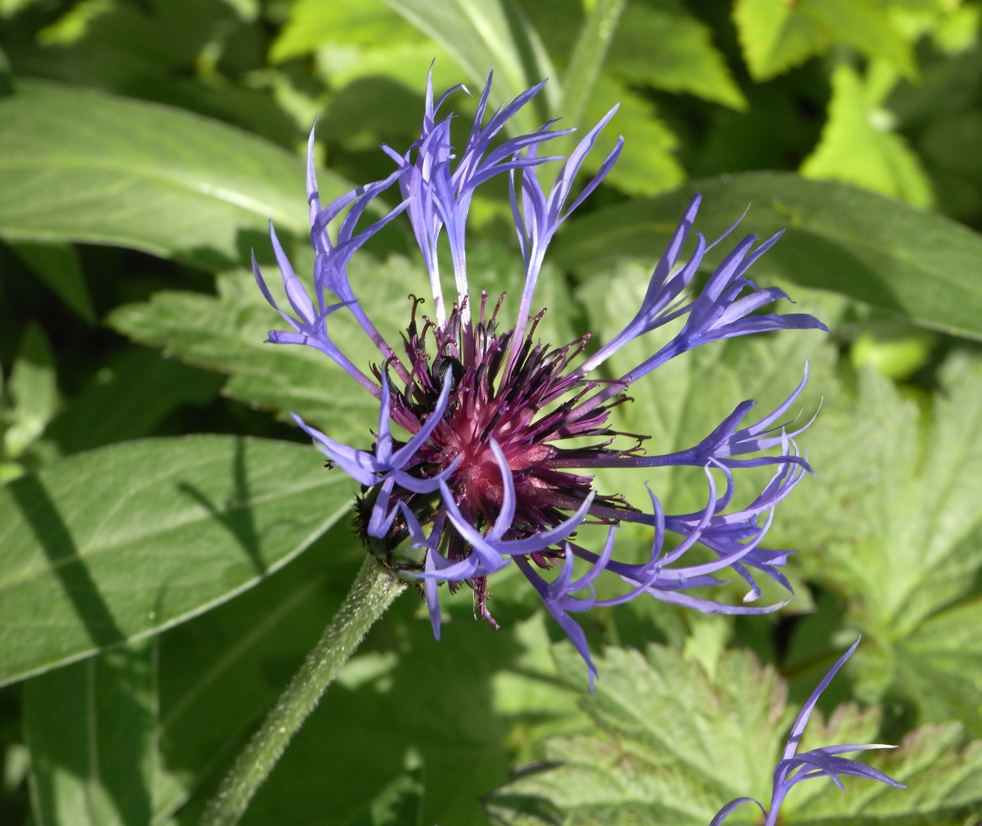 Centaurea montana